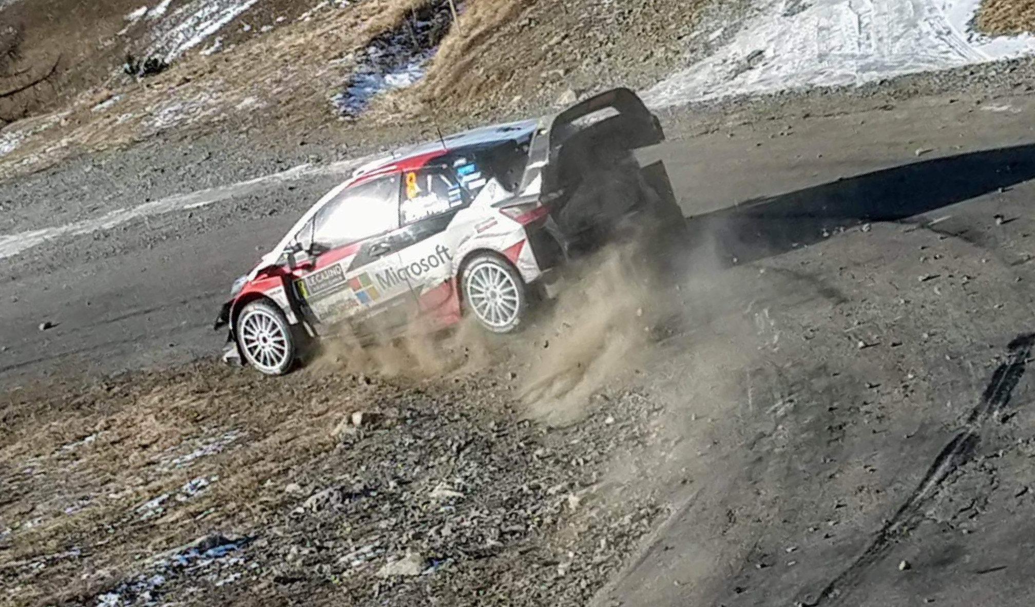 Toyota Yaris WRC d'Ott Tänak au Rallye Monte-Carlo 2019.